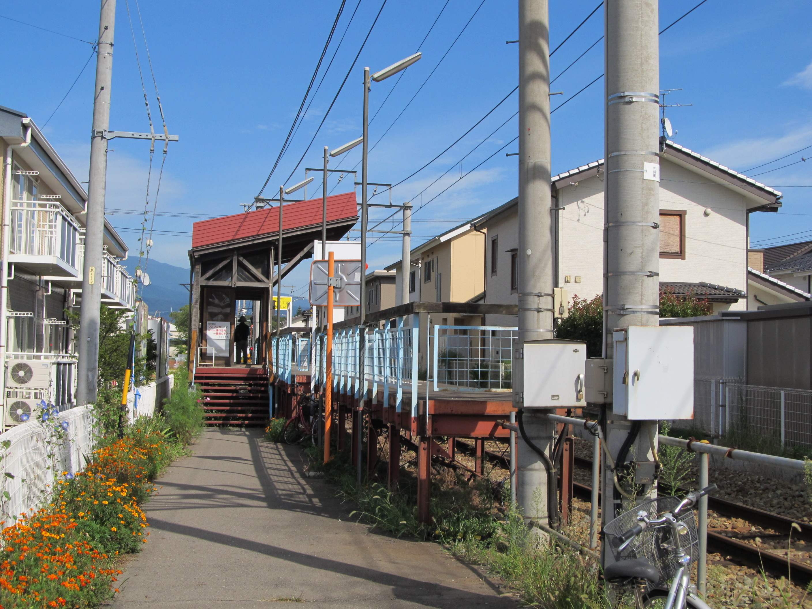 Ueda Electric Railway Bessho Line Miyoshichō Station Gate